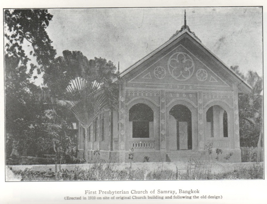 Samray Presbyterian Church (1928)